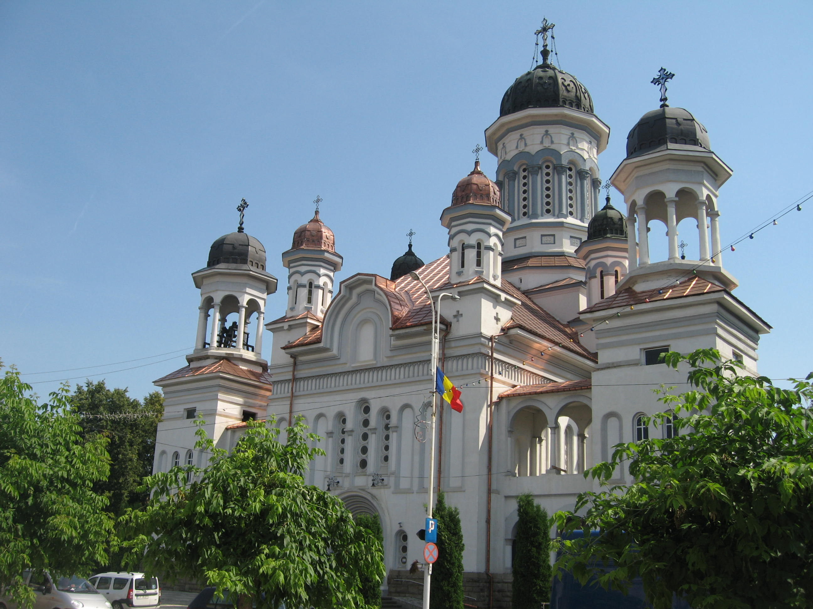 Catedrala din Rădăuţi